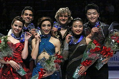 The ice dancing podium at the 2013 Skate America. From left: Anna Cappellini / Luca Lanotte (2nd), Meryl Davis / Charlie White (1st), Maia Shibutani / Alex Shibutani (3rd).